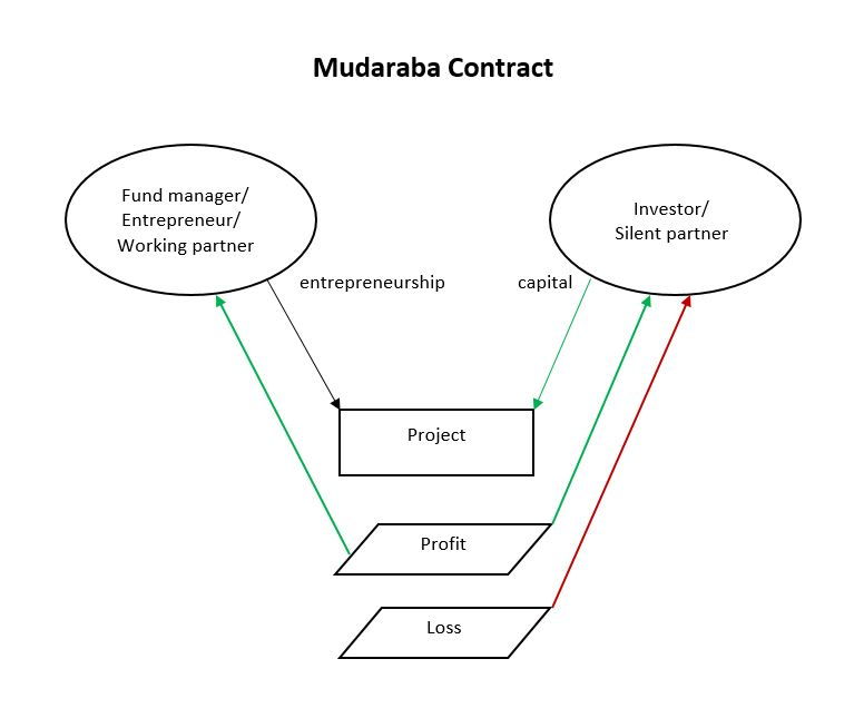 How a mudaraba contract works